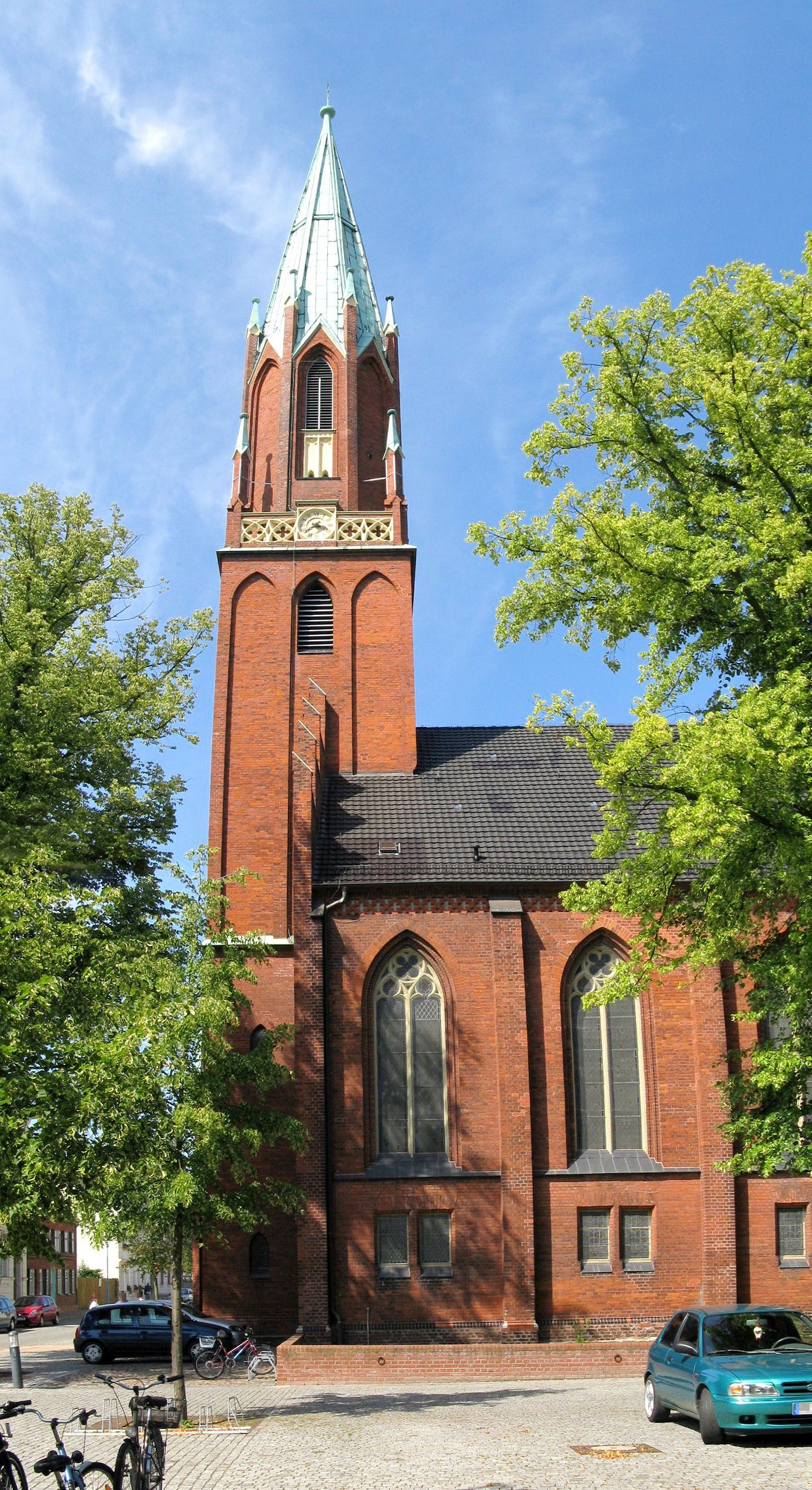 Evangelical lutheran church in Wittenberge, disctrict Prignitz, Brandenburg, Germany